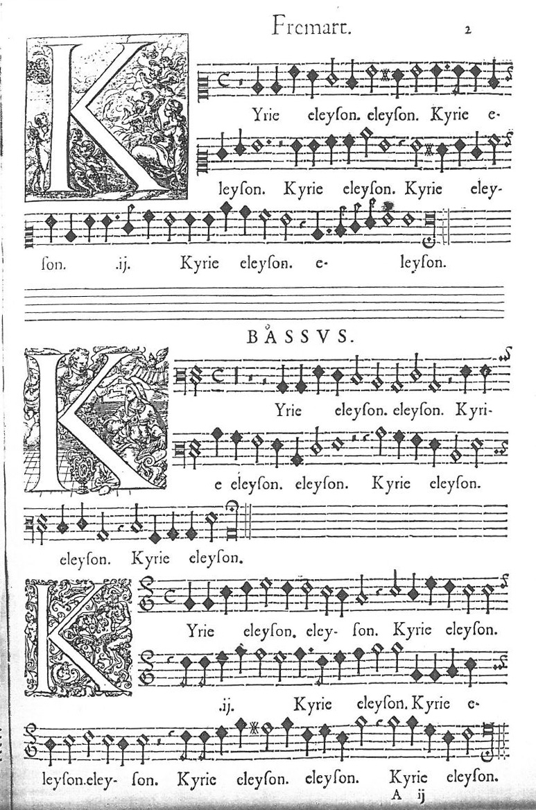 Begining of Kyrie of Frémart Missa Jubilate Deo (1645)